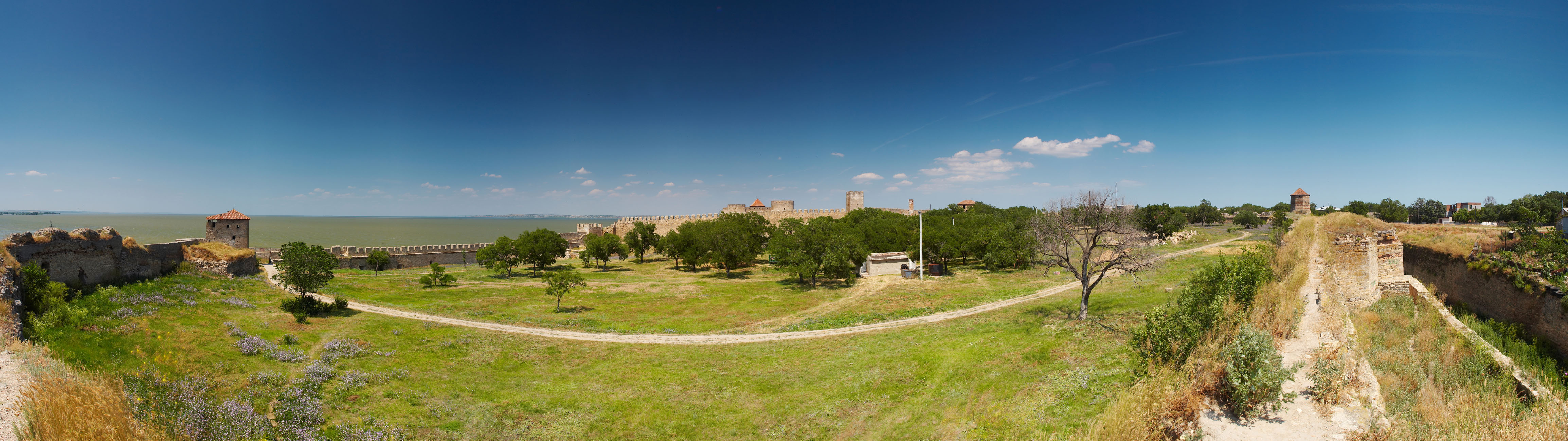 Panorama of Bielgorod-Dniestrovskiy ancient fortress Akkerman. View from one wall.